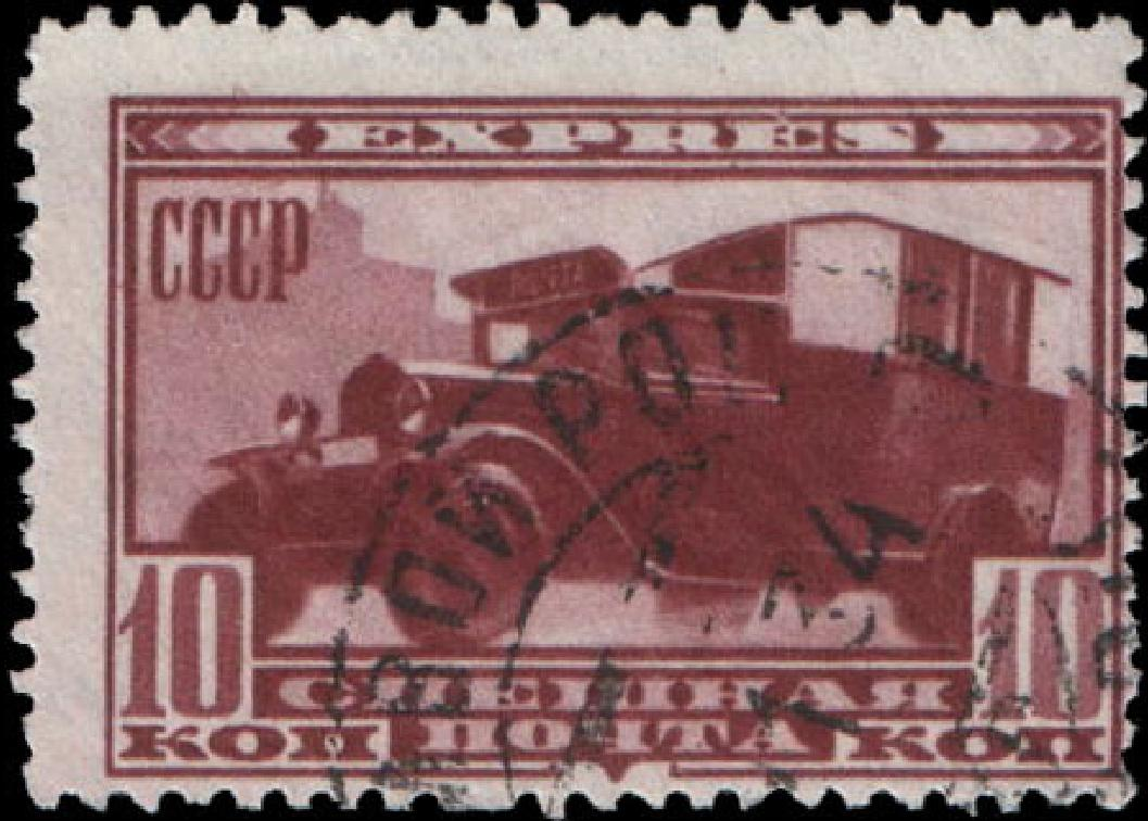 USSR stamp of express mail, 1932 (CPA № 388)